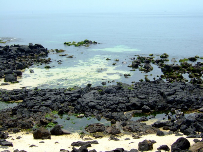 the beach in Udo Island